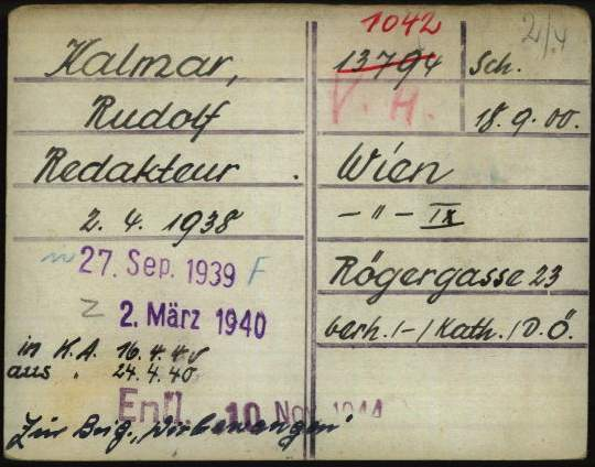 Registration card of Rudolf Kalmar, Jr. as a prisoner at Dachau Nazi Concentration Camp. Footnote (bottom left) indicates Kalmar's transfer to so-called "Dirlewanger Brigade" (SS-Sturmbrigade Dirlewanger), a penal unit.